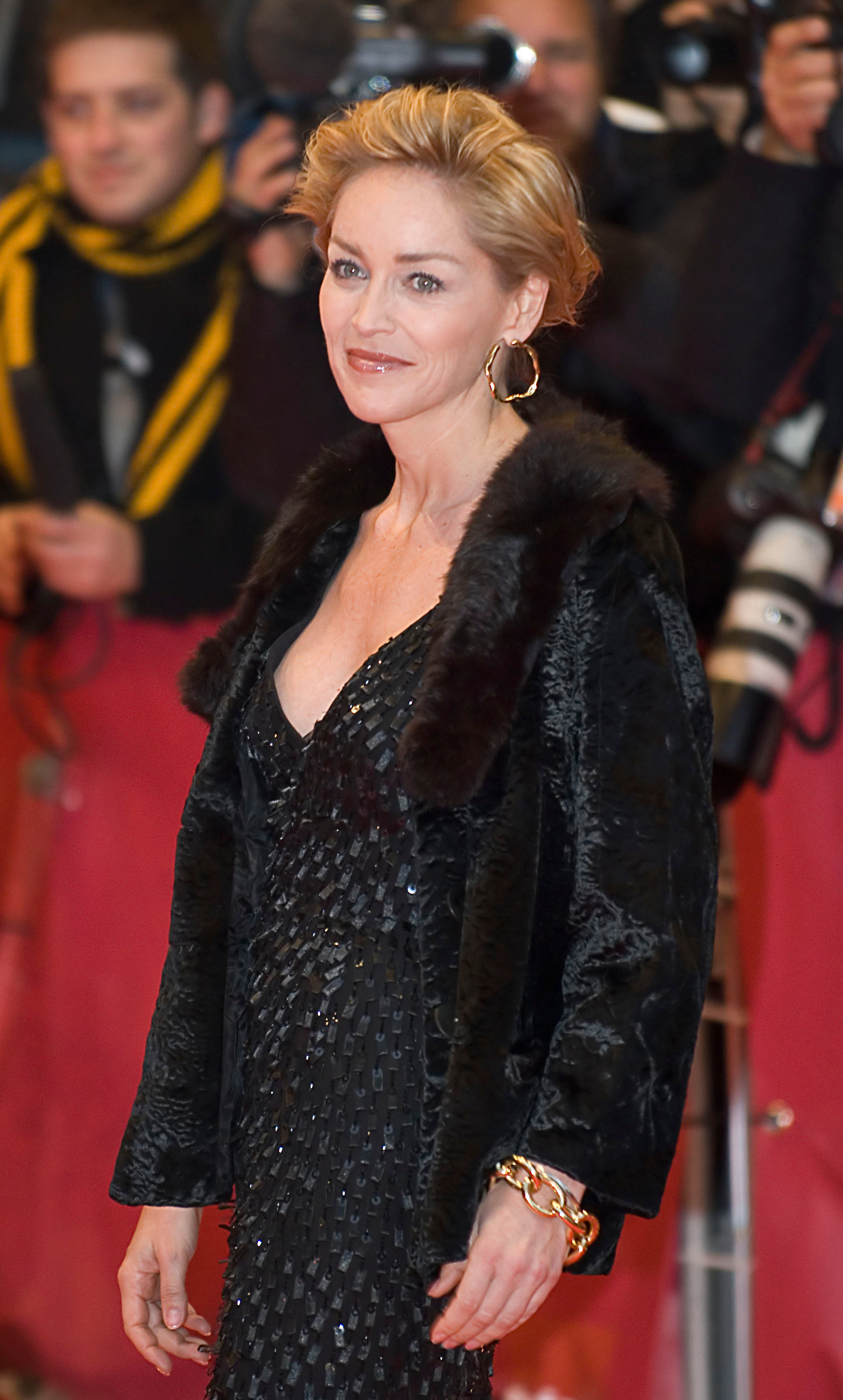 Sharon Stone Premiere of "When a man falls in the forest" at the Berlinalepalace, Marlene-Dietrich-Platz, Berlin